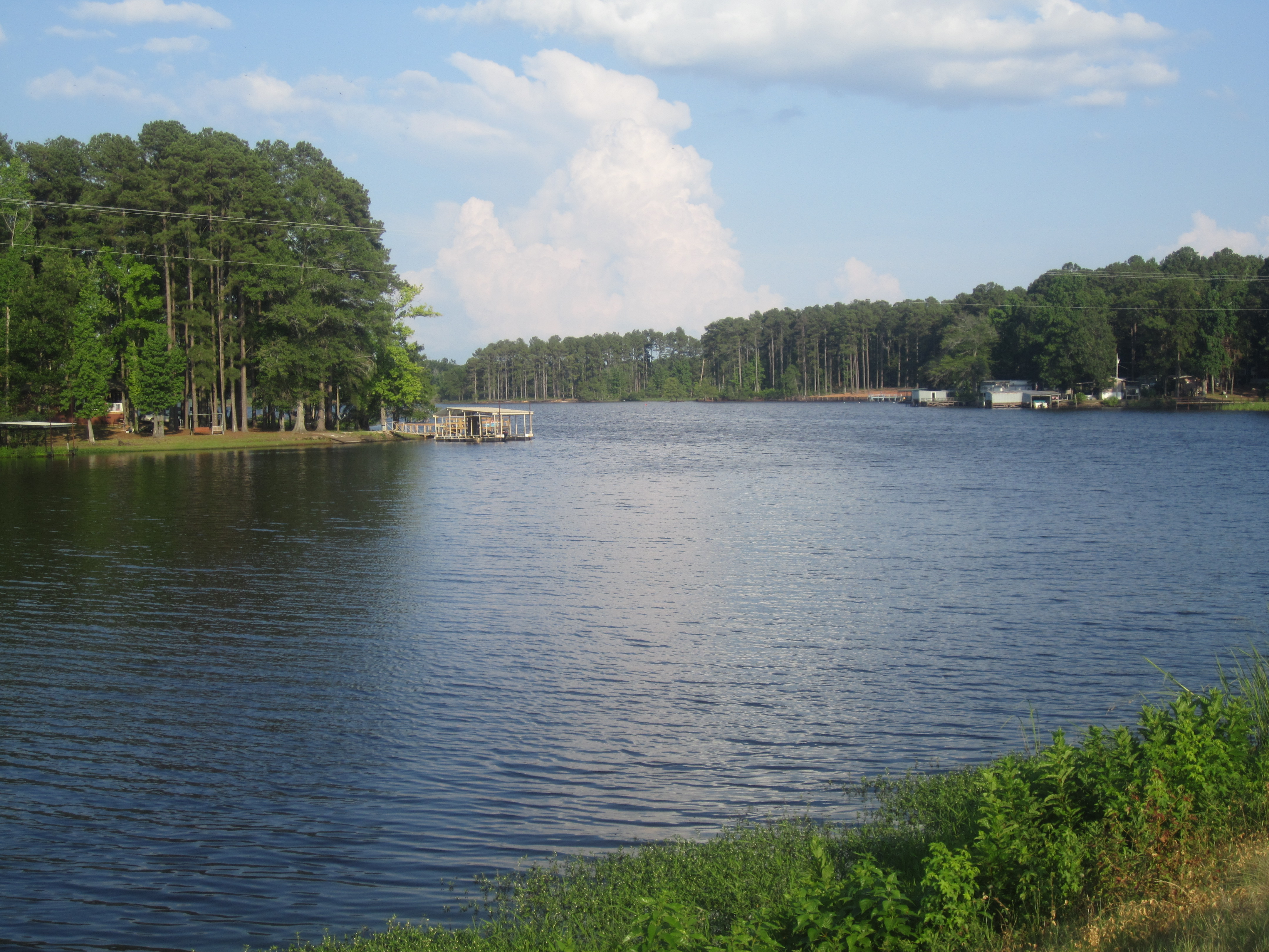 I took photo of Lake Erling north of Springhill, LA, with Canon camera on June 9, 2012.